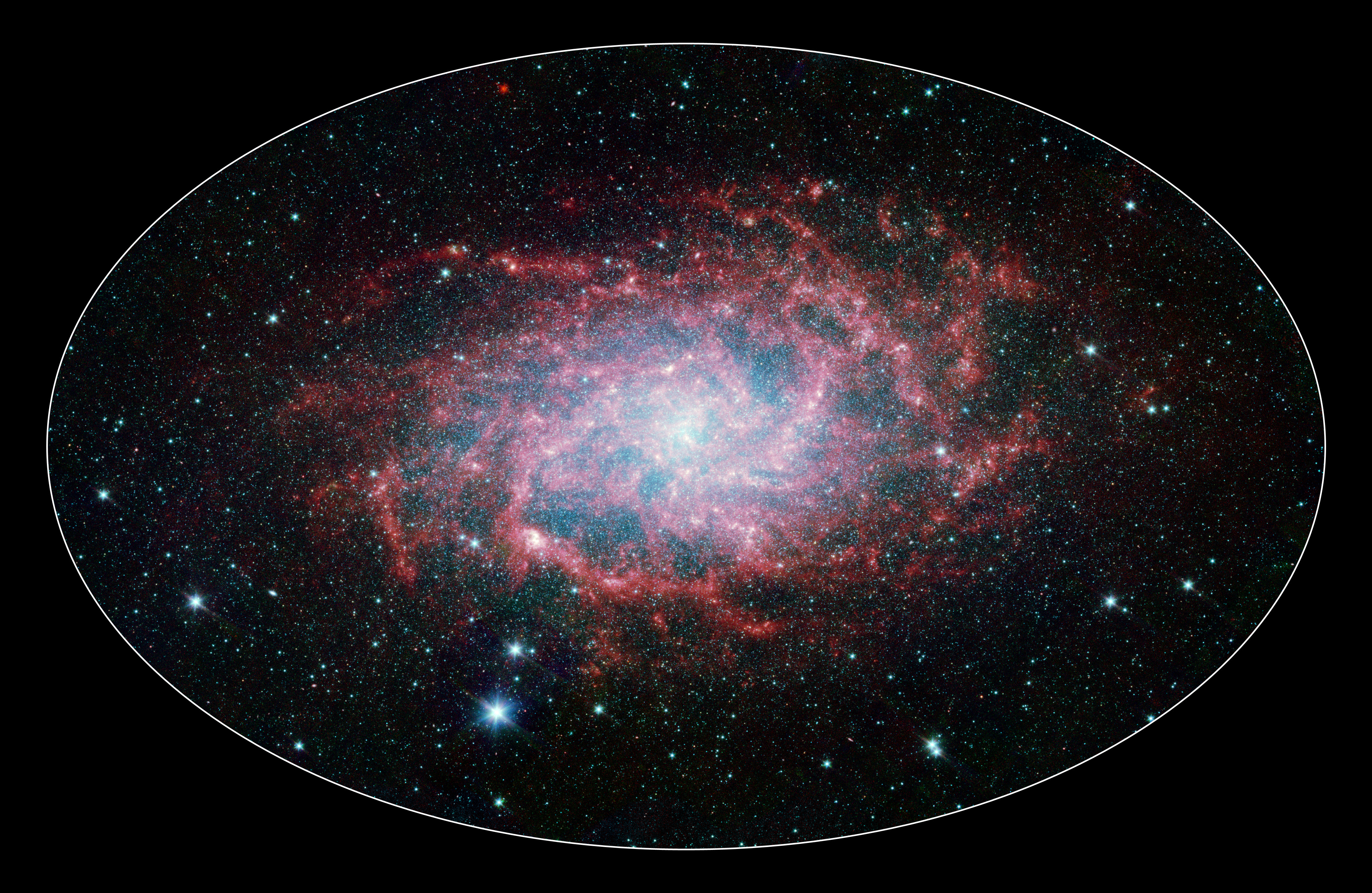 Infrared image of the Triangulum Galaxy taken from NASA's Spitzer Space Telescope. Blue is 3.6 microns, green 4.5-microns, and red is 8.0 microns wavelength. The pink hue shows the distribution of dust in the galaxy.